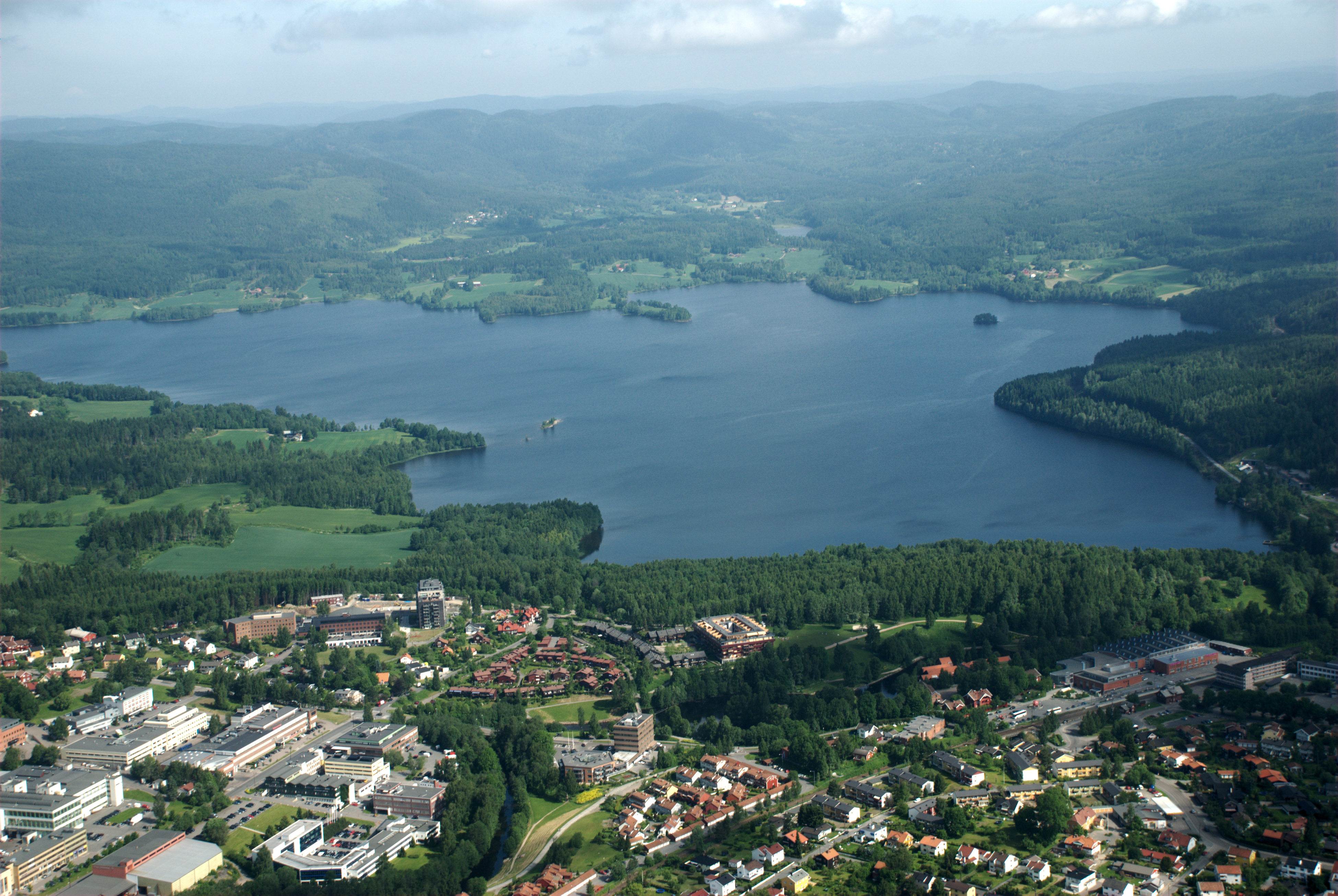 Maridalsvannet is a lake just north of Oslo, Norway. It is the largest lake in the municipitality of Oslo, and serves as the main drinking water supply for the city.